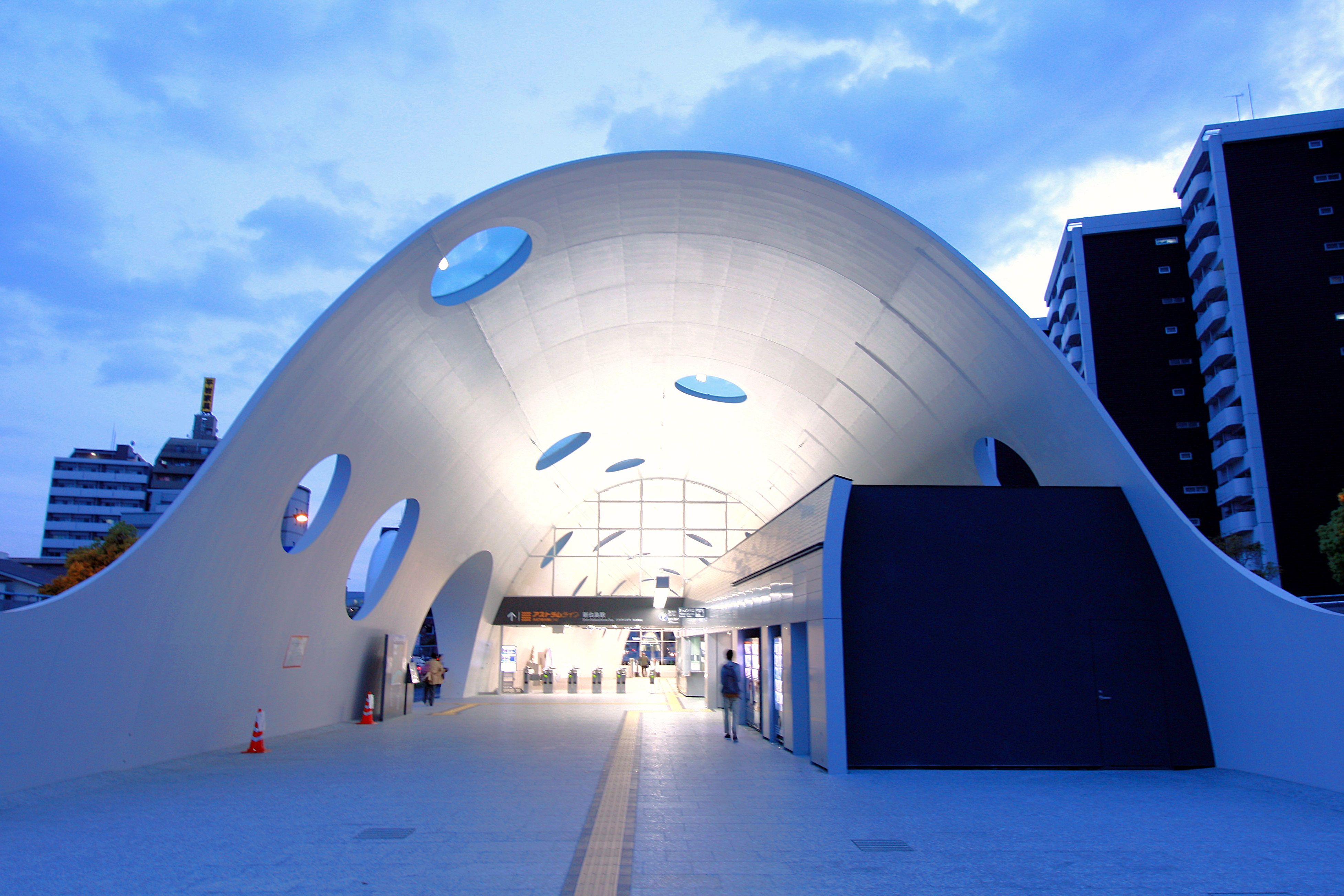 Shin-Hakushima Station (Astram)